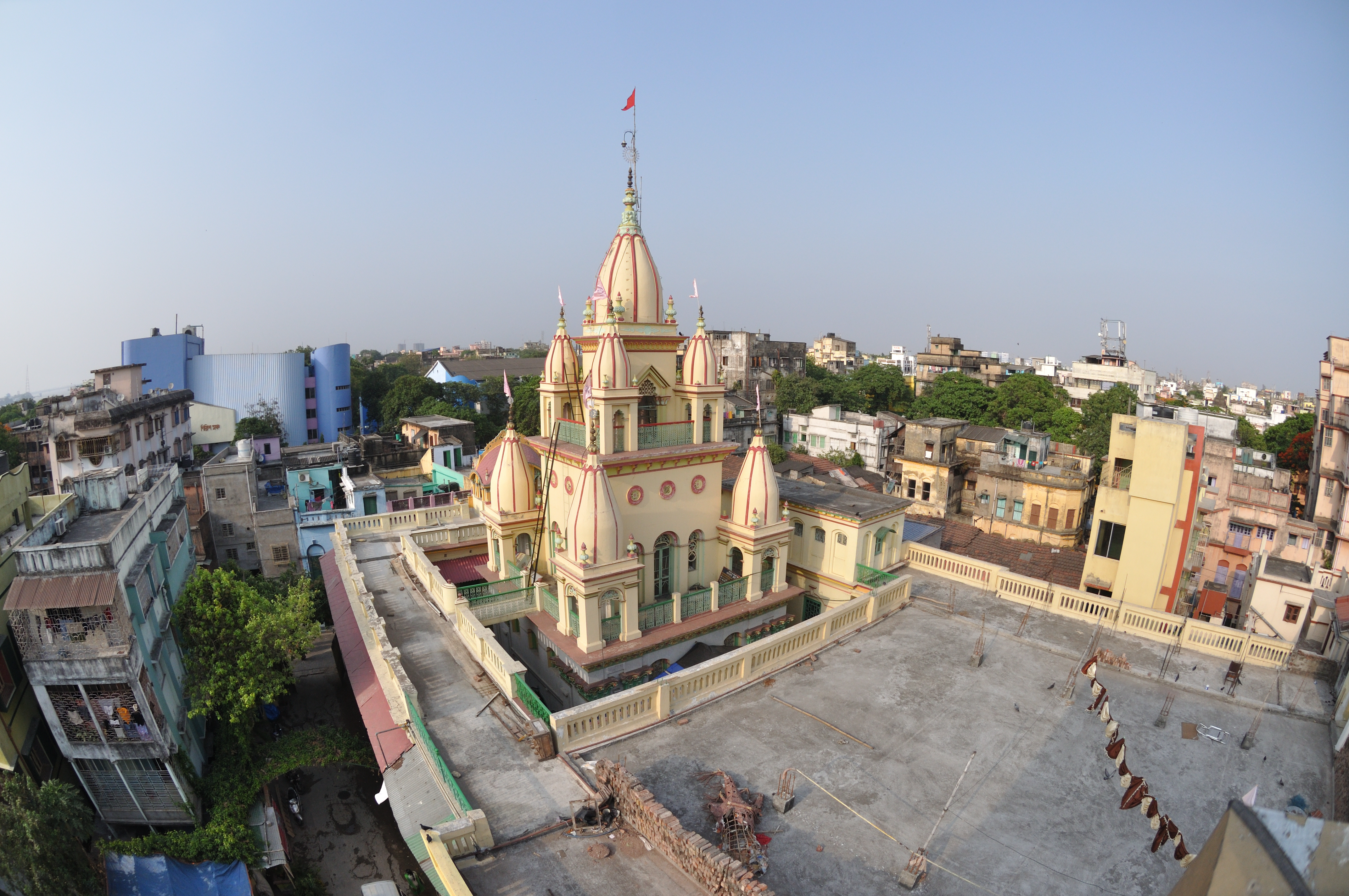 This photograph was taken in Kolkata.